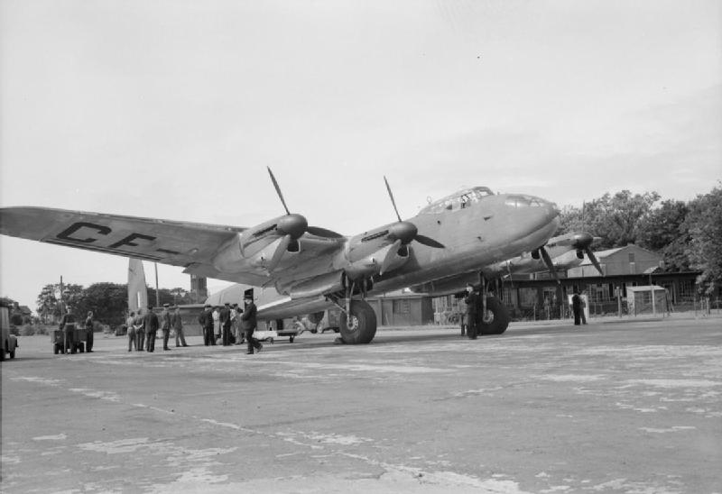 Aircraft of the Royal Air Force 1939-1945-avro 683 Lancaster Lancaster Mark I transport conversion, CF-CMS, at Prestwick, Ayrshire, after a flight from Montreal, mid-1944. Originally a B Mark I, R5727 was converted as a transatlantic passenger and mail carrier by Victory Aircraft Ltd of Canada and operated by Trans-Canada Air Lines